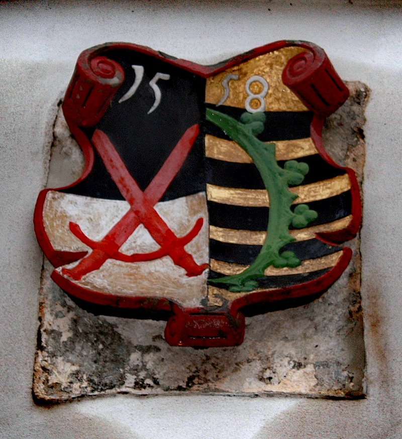 Schloss Schwarzenberg: Coat of Arms